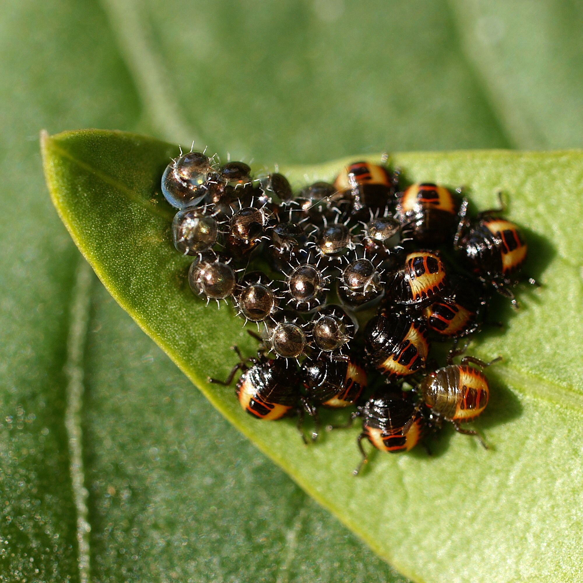 1st instar Heteroptera nymphs & eggs cases & dress pin. *** found on a leaf underside of a privet.